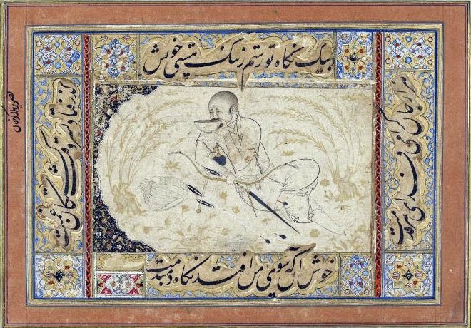 Persian drawing of Hülegü taking a drink. Created in Bukhara in persian style in the early 16th century.